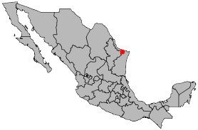 Location of Reynosa, Tamaulipas, Mexico